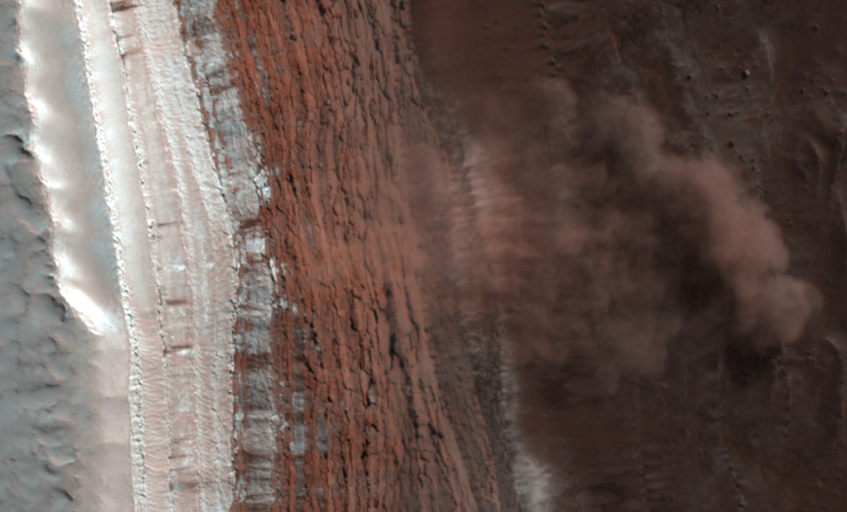 The avalanche on Mars, February 19th 2008